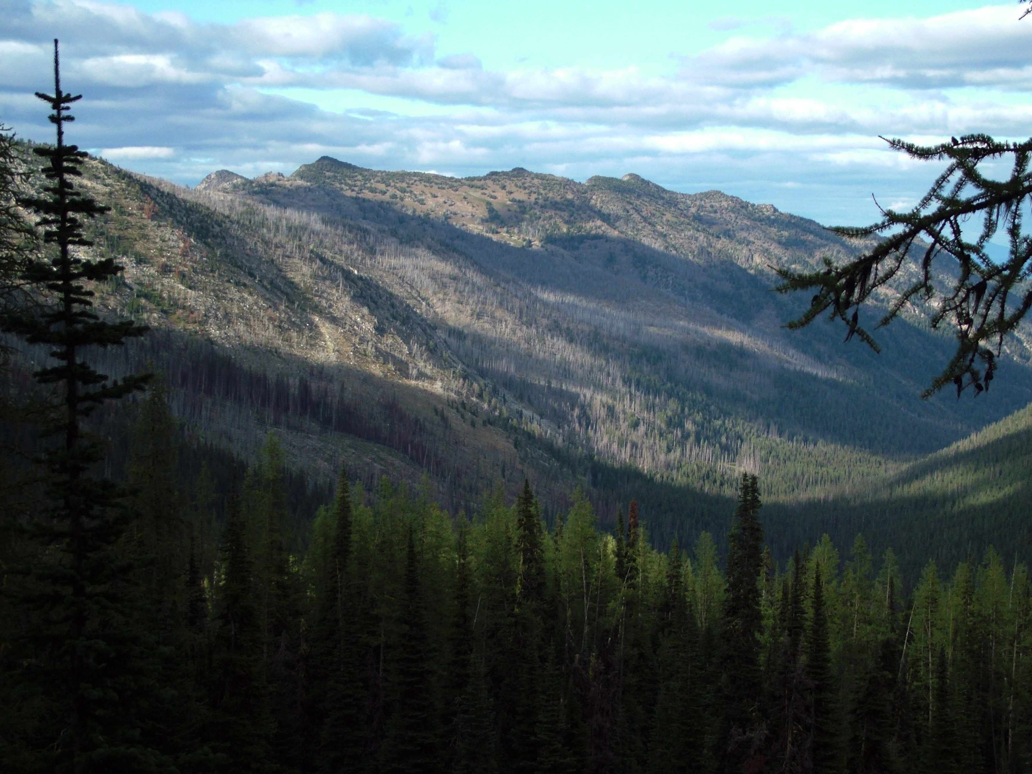 Looking northeast down the War Creek valley from a bit below War Creek Pass. Lake Chelan-Sawtooth Wilderness, Okanogan National Forest, Washington, USA. Visible are Williams Butte and War Creek Ridge, as well as the War Creek Burn (1994) and Camel's Hump Burn (2008).